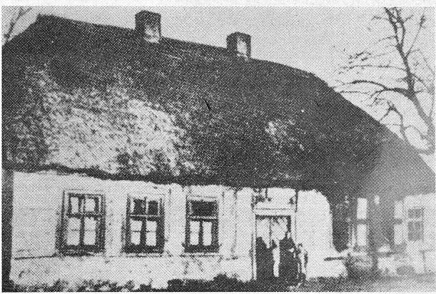 „Alter Krug“ (german for: old inn), the oldest preserved and listed bulding in Ludwigsfelde, built in 1753. Picture taken ca 1900. In all times to this day it was an inn. Ludwigsfelde is a town in the district Teltow-Fläming, state Brandenburg, Germany.)